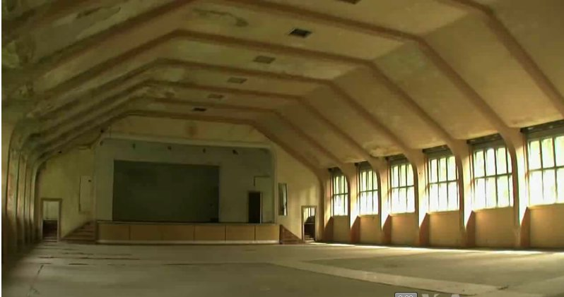 Screen capture showing the interior of the dining hall for the 1936 Summer Olympics, unrestored as of 2012.